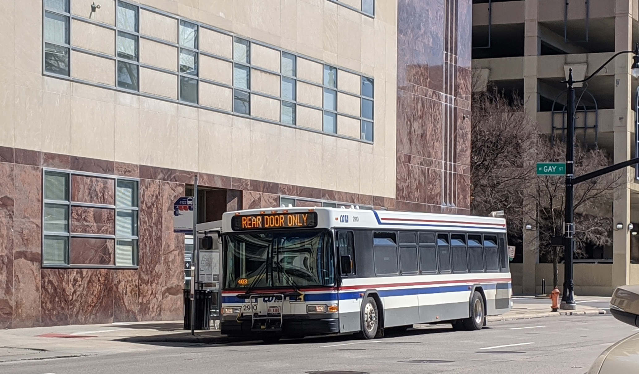 COTA bus in Columbus, Ohio. Rear door boarding only due to coronavirus.